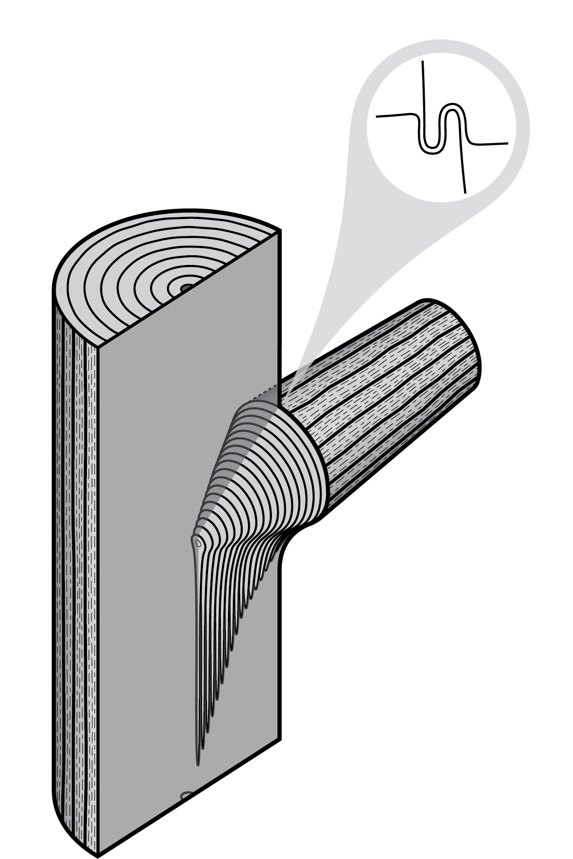 Anatomical drawing of the attachment of a branch to the trunk of a tree, based upon the model of Slater et al. (2014)